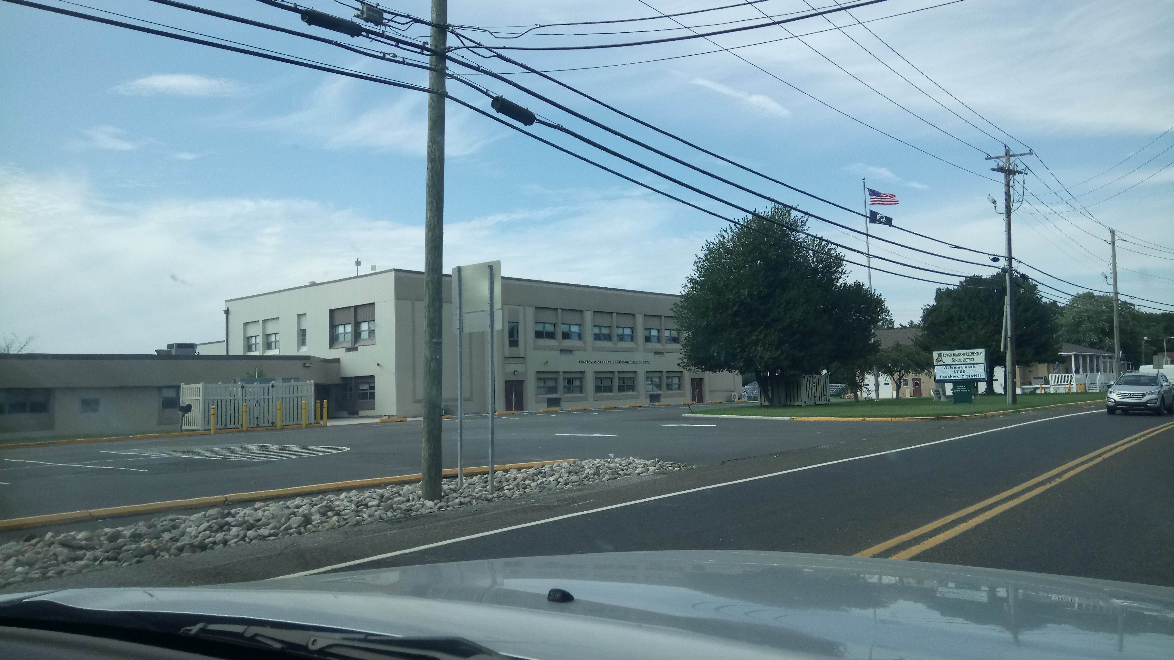 Sandman School in Lower Township